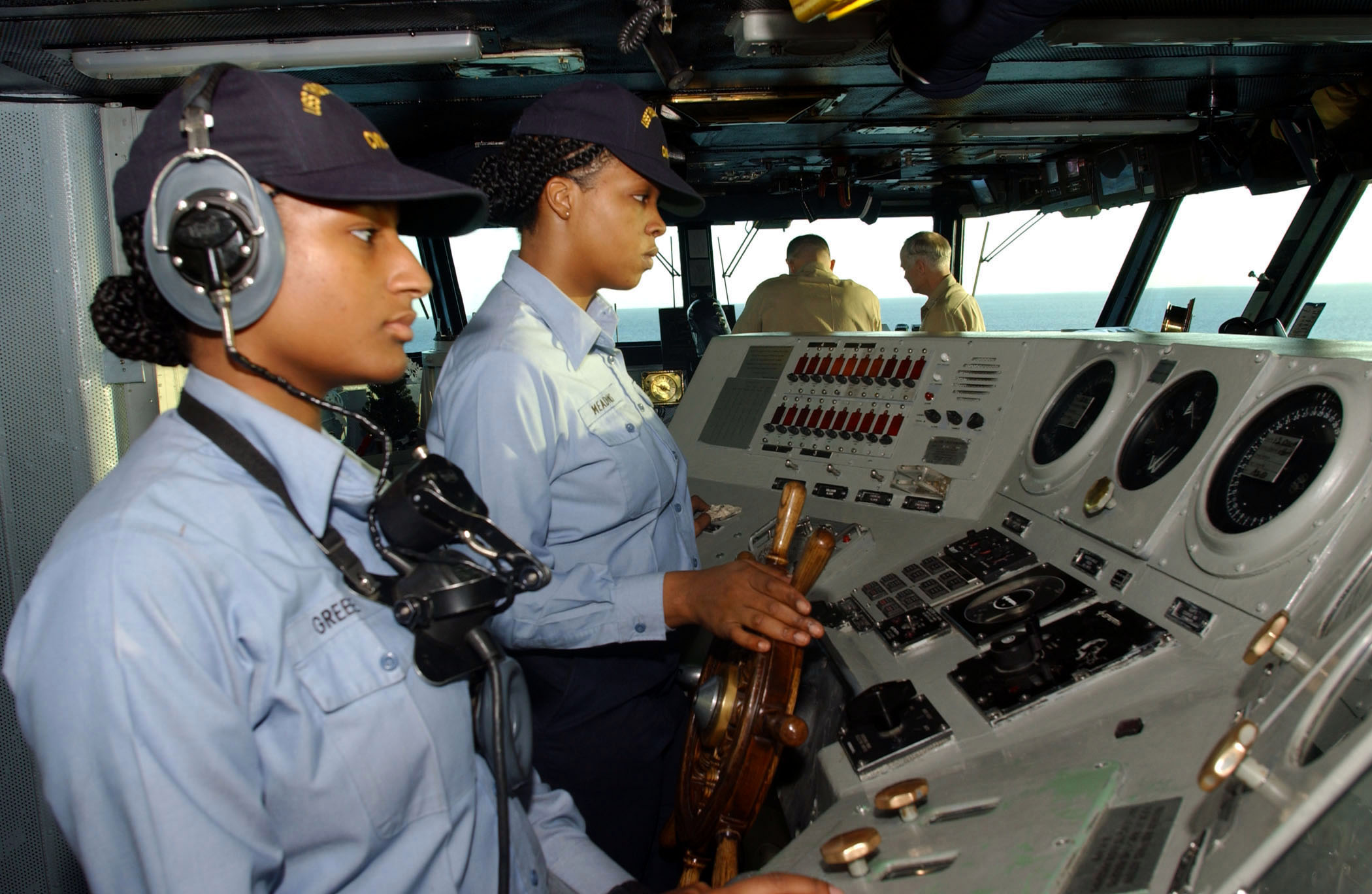 At sea aboard USS Theodore Roosevelt (CVN 71) Dec. 12, 2001 -- Seaman Estrada Greene (left) from Augusta, Ga., stands lee helmsman and boatswain's mate 3rd class Fikisha Meadows from Jacksonville, N.C., stands helmsman on the bridge aboard USS Theodore Roosevelt. The aircraft carrier is deployed in support of Operation Enduring Freedom.